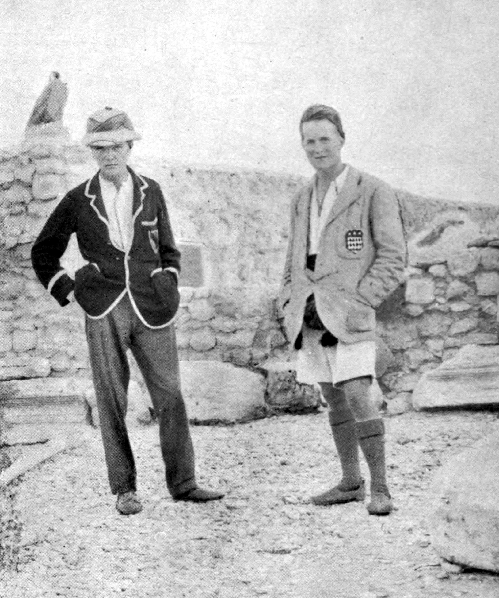 C. Leonard Woolley (left) and T. E. Lawrence at the archaeological excavations at Carchemish, Syria, circa 1912-1914.